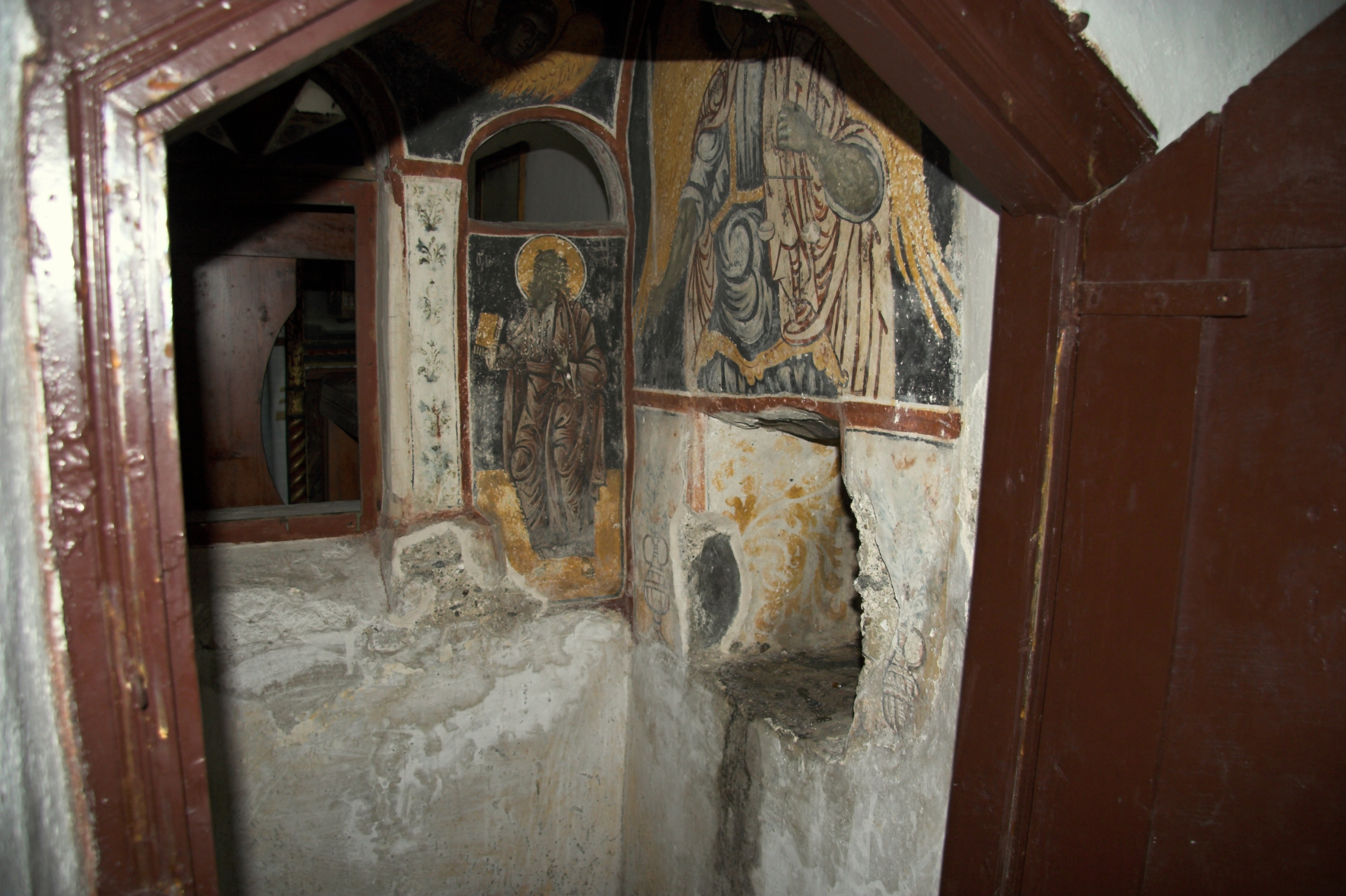 Oracle space inside the monastery church of Ag. Georgios Valsamitis (Varsamitis). Spring said 1958 had cemented a powerful overbearing (ischyros) man. Until then, the harbinger of colors or take water from the reflection of water, thus hydromatnie. It was a simple divination yes / no; consent / warning. Divining here to let mainly sailors, most said things in weddings.